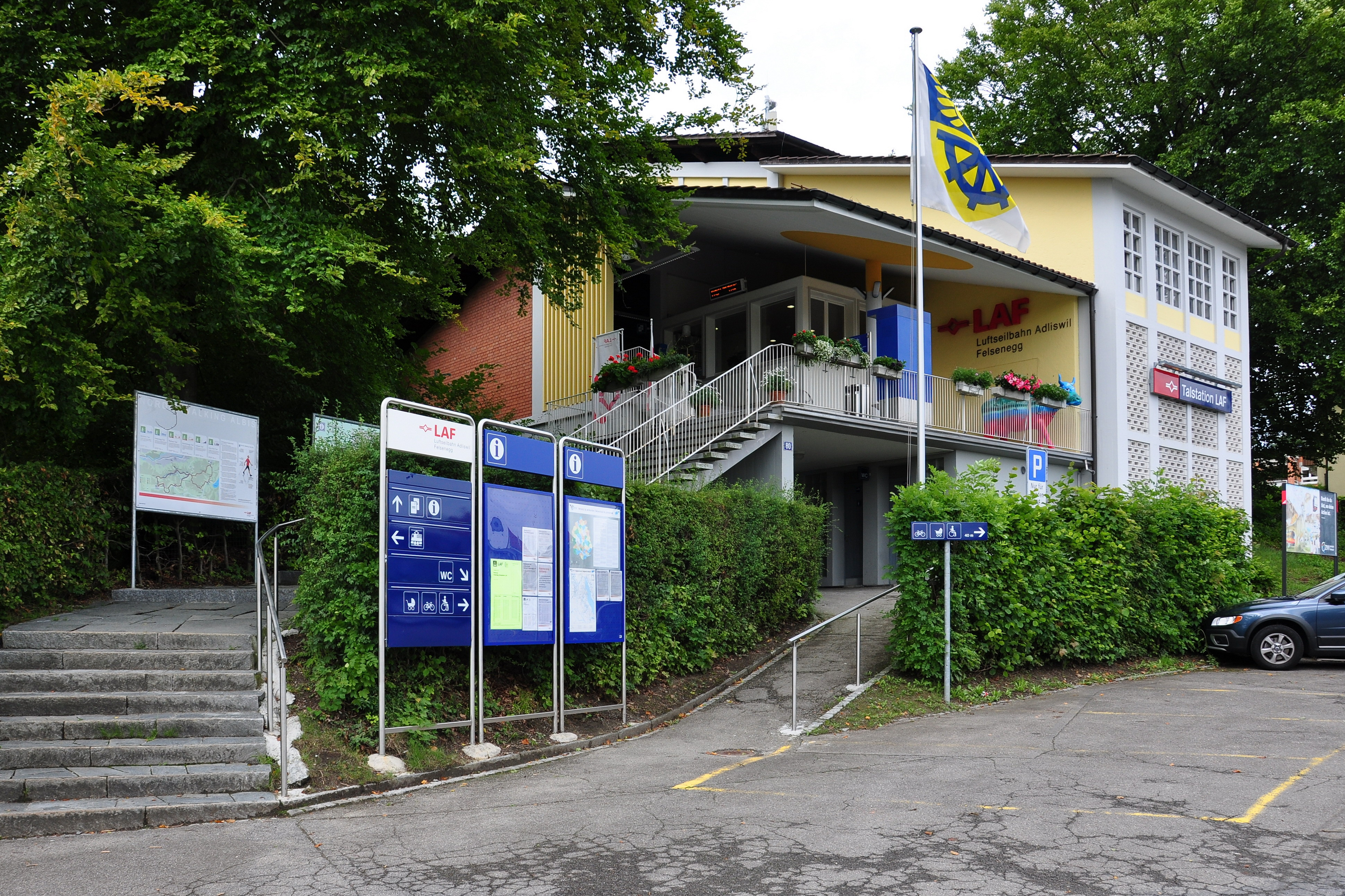 Luftseilbahn Adliswil-Felsenegg, Adliswil station.